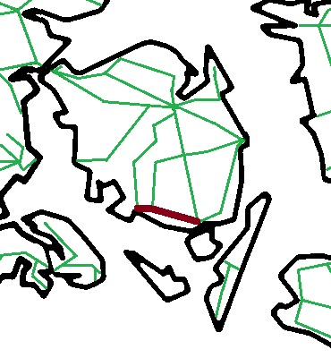 Map of railways on Funen in Denmark with the private railway Svendborg-Faaborg Banen in brown.